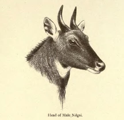 Head of Nilgai, Boselaphus tragocamelus